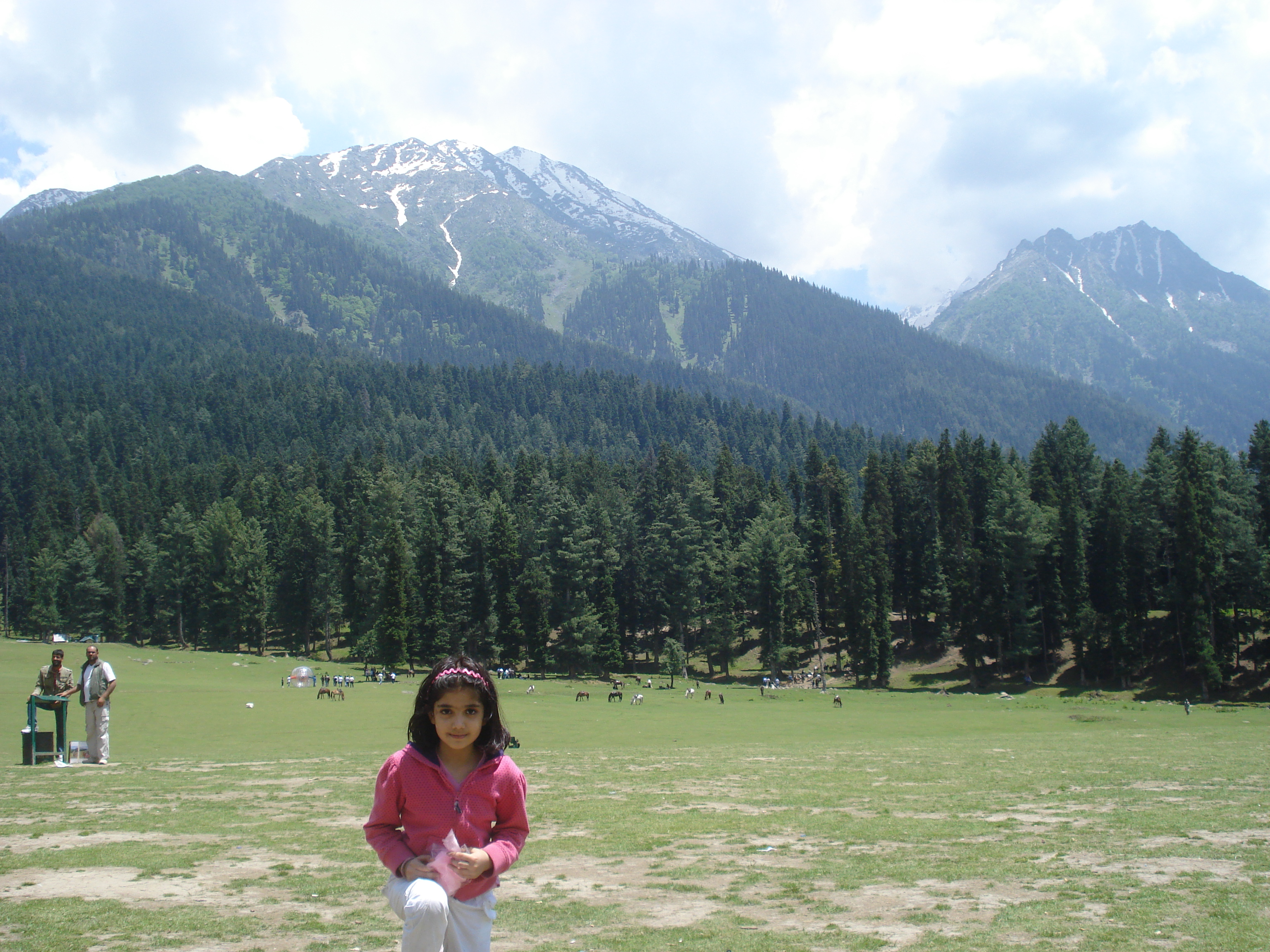 Srinaga-pahalghan-yatra